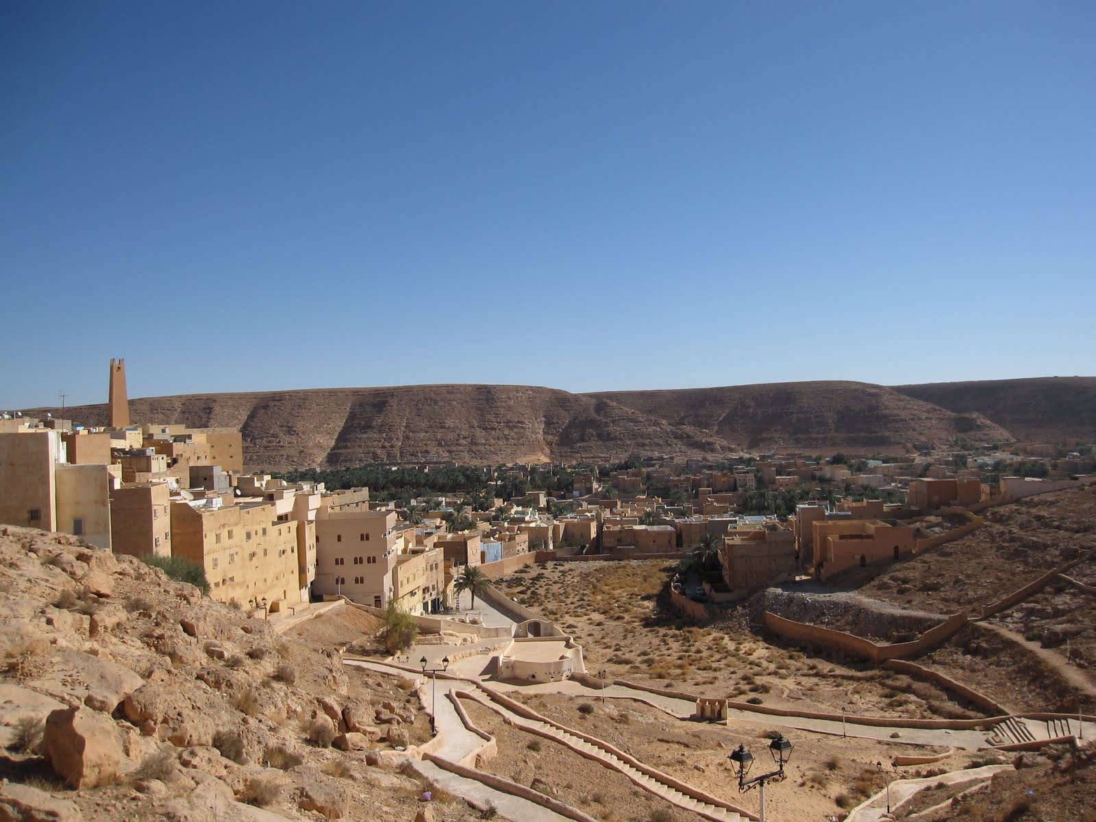 El-Atteuf, the oldest of the five valley towns, founded in 1013